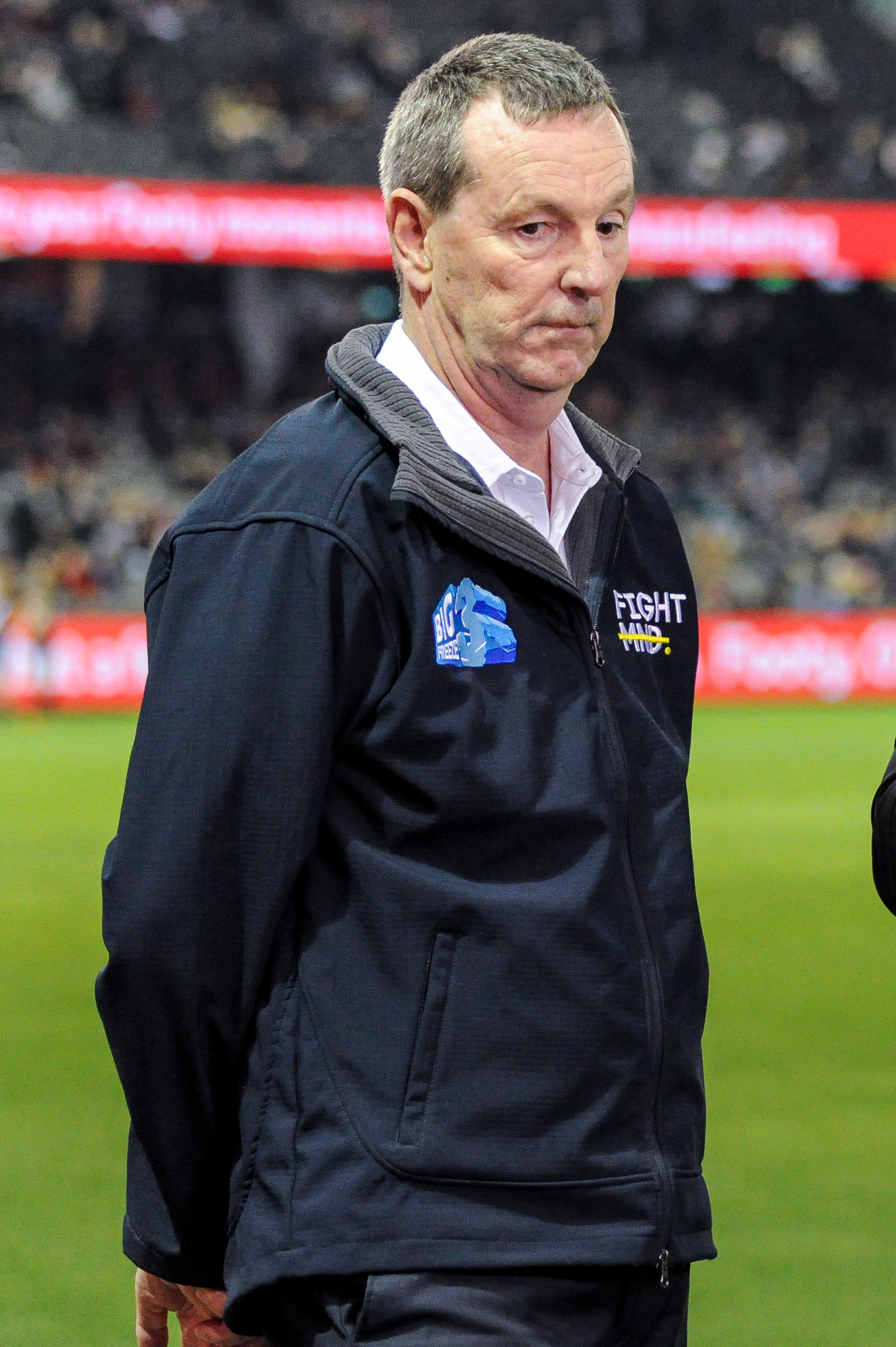 Neale Daniher during the AFL round twelve match between Essendon and Port Adelaide on 10 June 2017 at Etihad Stadium in Melbourne, Victoria.